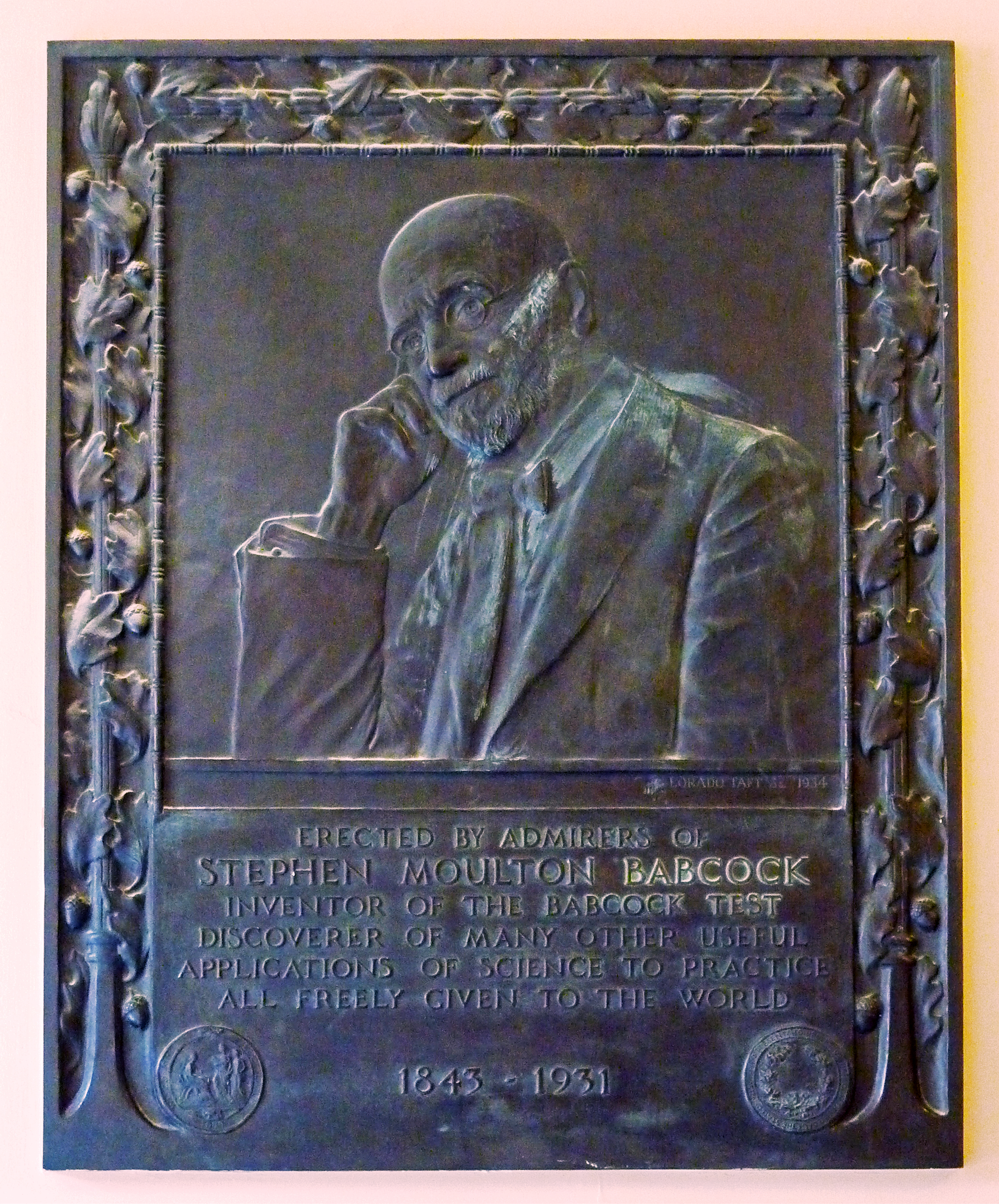 Memorial plaque (1934) by Lorado Taft honoring Stephen Moulton Babcock in the foyer of the Biochemistry Department at the University of Wisconsin-Madison. The Biochemistry Department is housed in the landmarked Agricultural Chemistry Building in the Henry Mall Historic District. Facing this plaque is one dedicated to Edwin Bret Hart.